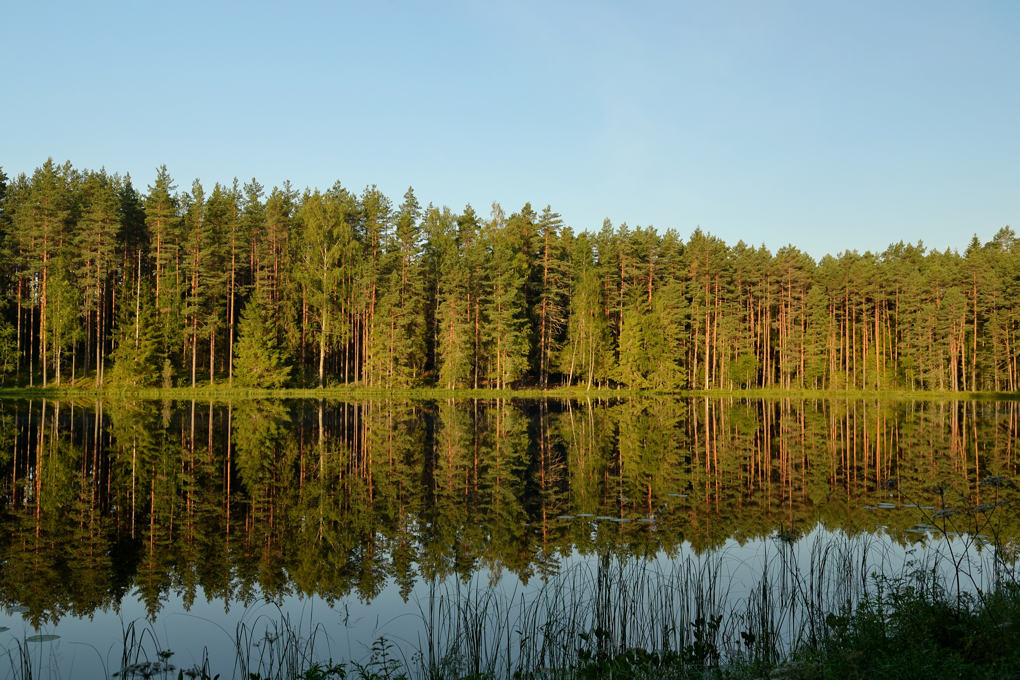 Lake Kublitsa